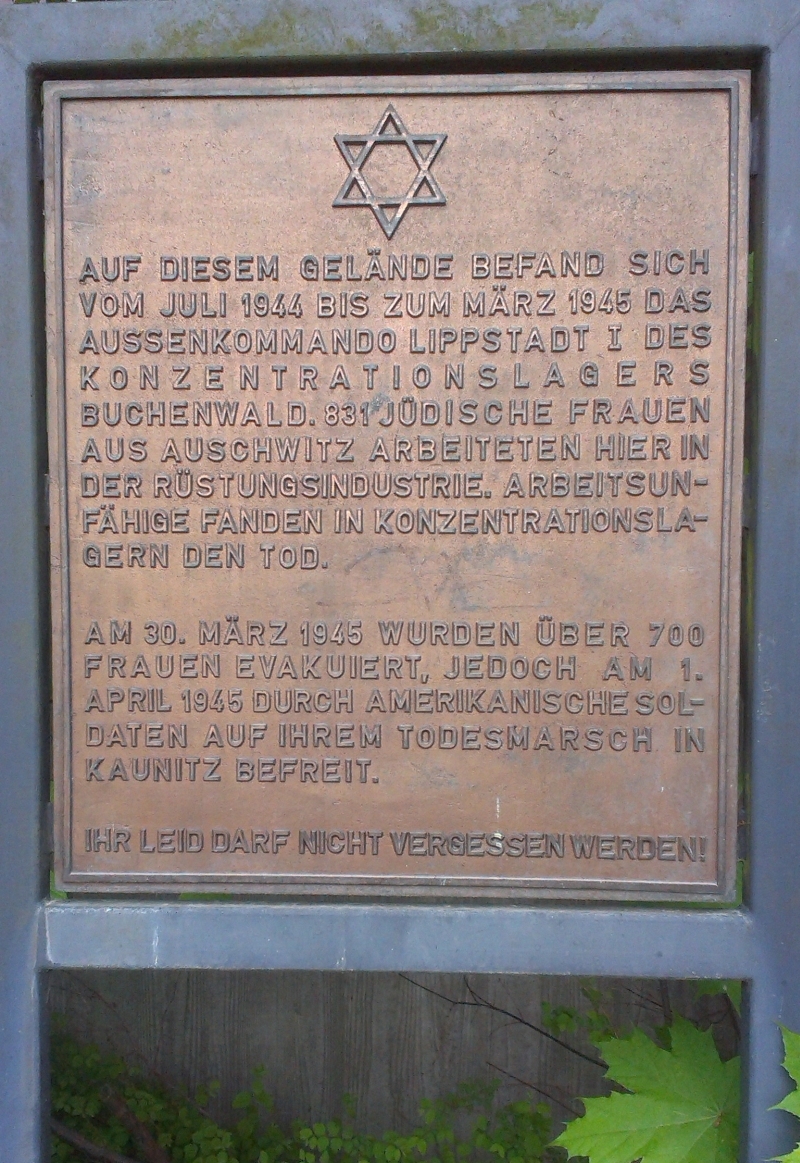 memorial plate Aussenkommando Lippstadt of concentration camp Buchenwald 1944-45